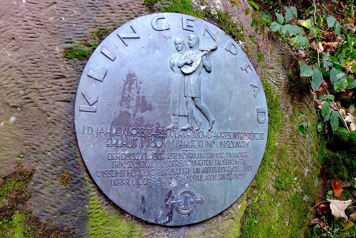 "Blade track" - the tourist marked route around the German city of Solingen (Northern Rhine-Westphalia). 5th stage: along the river Wupper. 9,2 km.